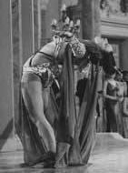 Nene Cao- vedette and actress